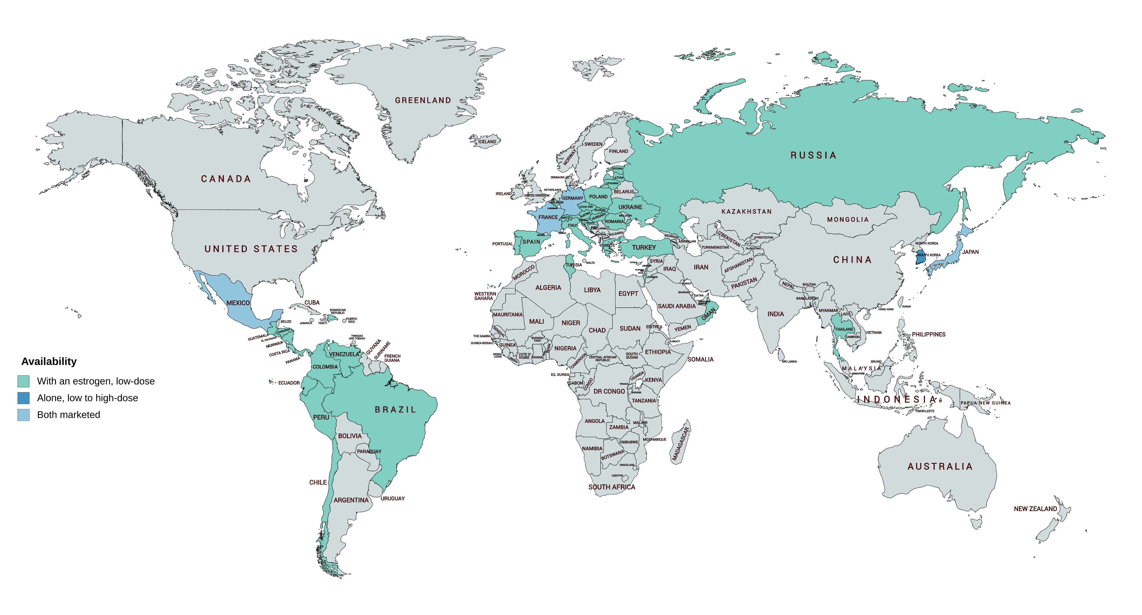 Current availability of chlormadinone acetate as of April 2018. I made this, anyone can use it. Created from source material using . Source of the information: See Chlormadinone acetate#Availability.